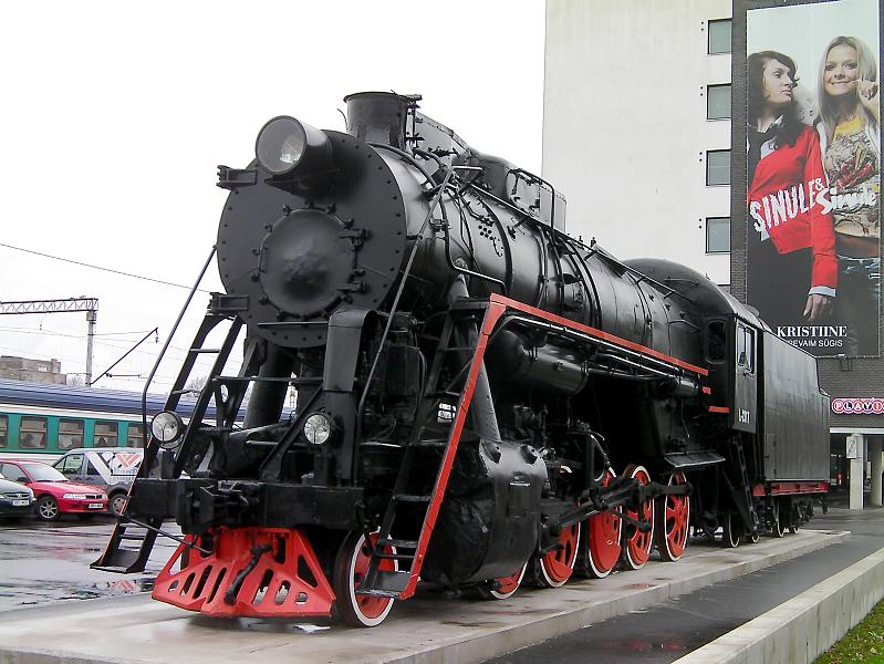 A steam locomotive in Tallinn railway station (Balti jaam), Estonia.